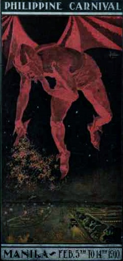 Cover of a pamphlet/book regarding the official program of the 1910 Manila Carnival which took place in February 5 to 14, 1910. (cropped)